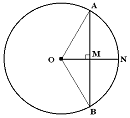 Central angle and chord